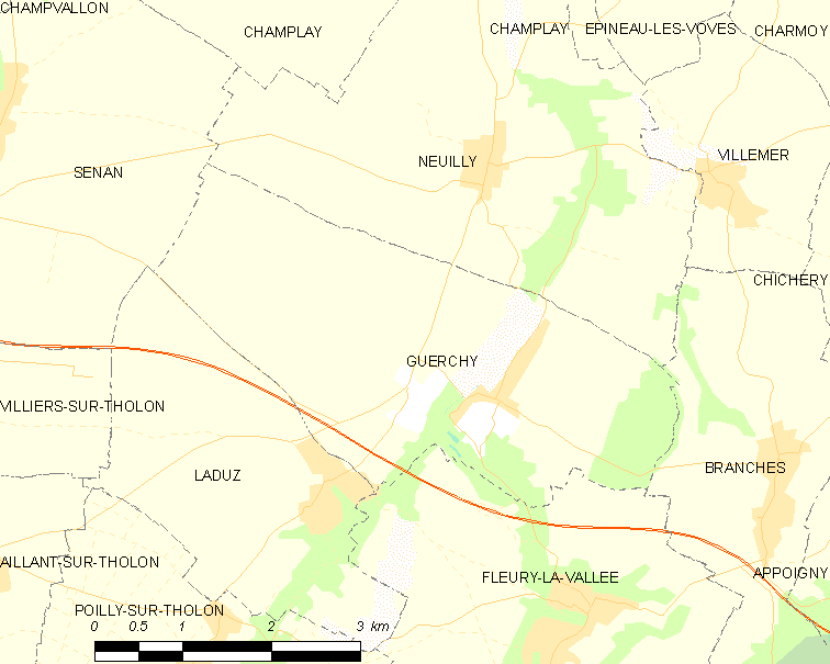 Map of French municipality Guerchy